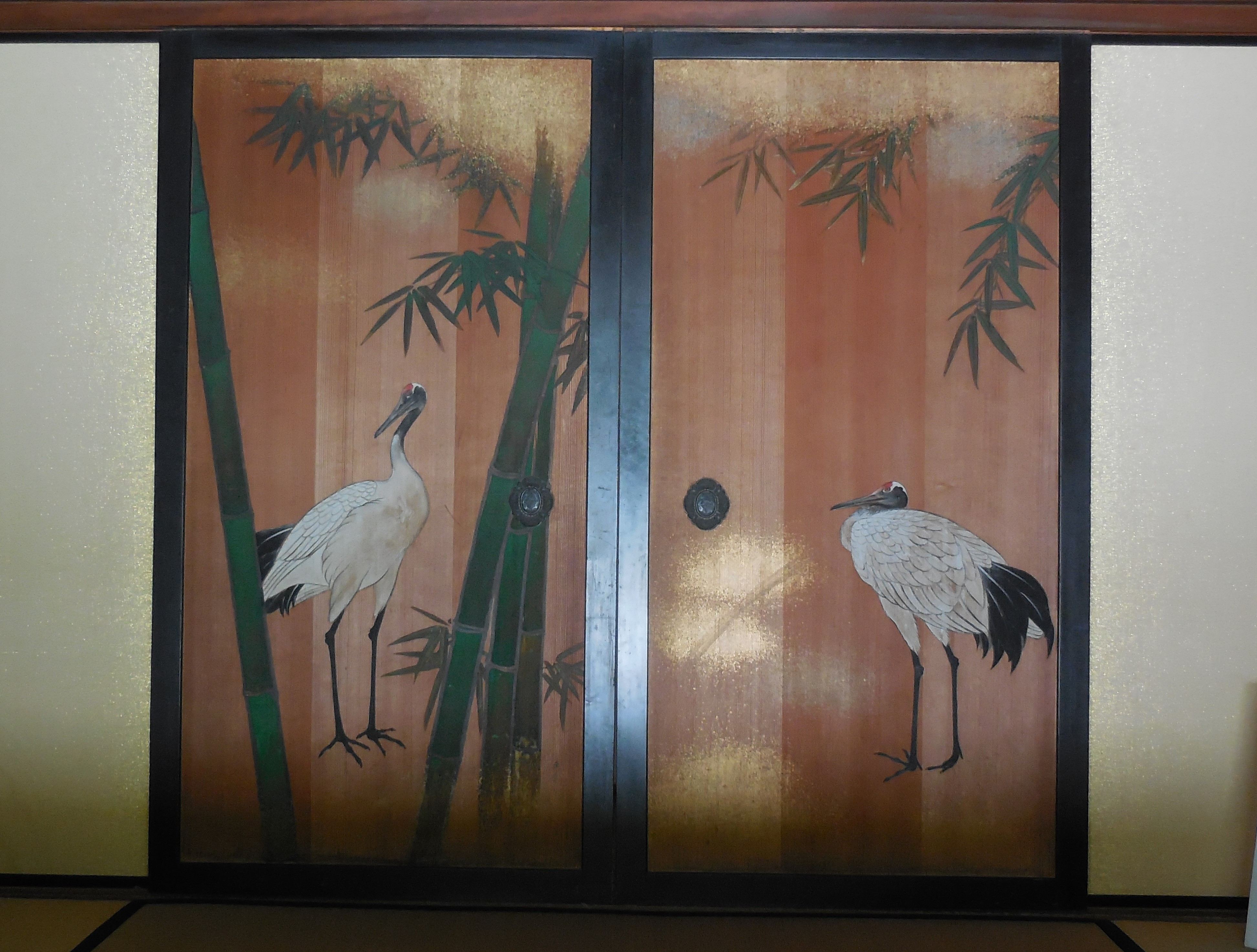 Fusuma-e by Kawabata Gyokushō (1842–1913) in the former Mōri residence in Chōfu